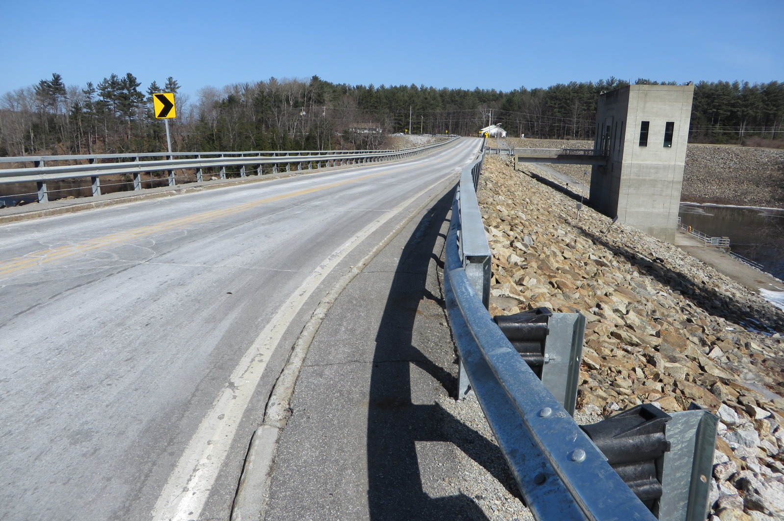 New Hampshire Route 127 at Hopkinton Dam across the Contoocook River, West Hopkinton, New Hampshire